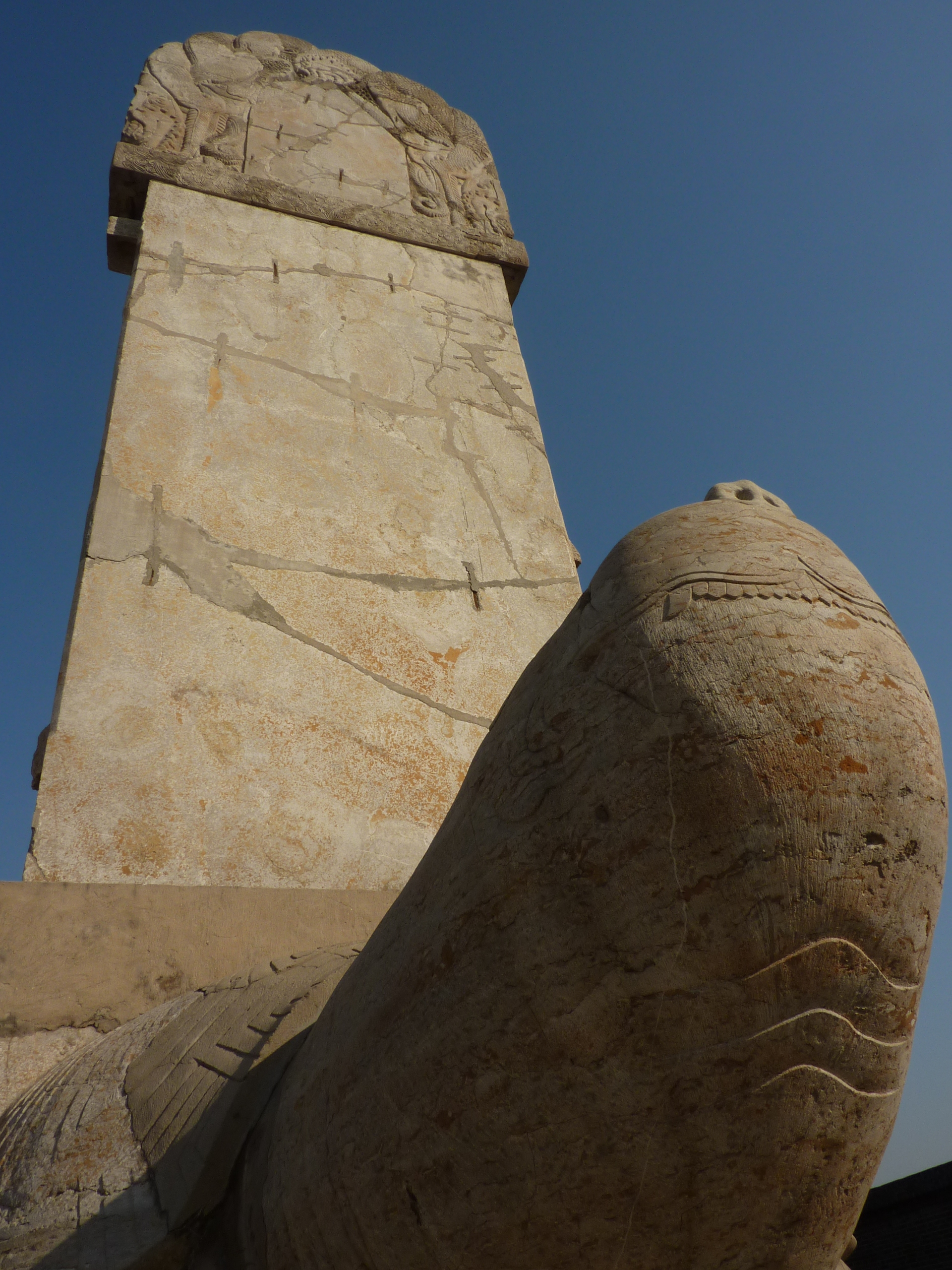 The Shou Qiu site - the two giant turtle-borne steles on the eastern and western side of a small lake. As almost all turtles of these kind, the two turtles look to the south. The western stele is known as "Qing Shou Stele", the eastern stele, as the "Wan Ren Chou Stele"